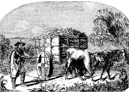 A MEXICAN CART p.134